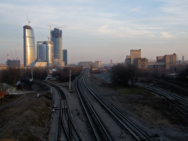 Moscow-City